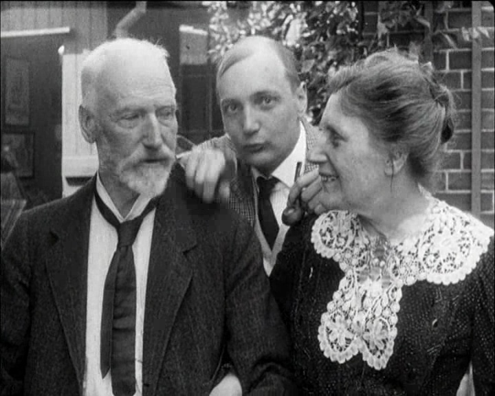 Screenshot from the Danish silent film Admiral Gad (Humlebæk) from June 1913 featuring the former counter admiral Urban Gad and his wife, the author Emma Gad, in their summer house. Urban Gad and Emma Gad with their son, the film director Urban Gad.